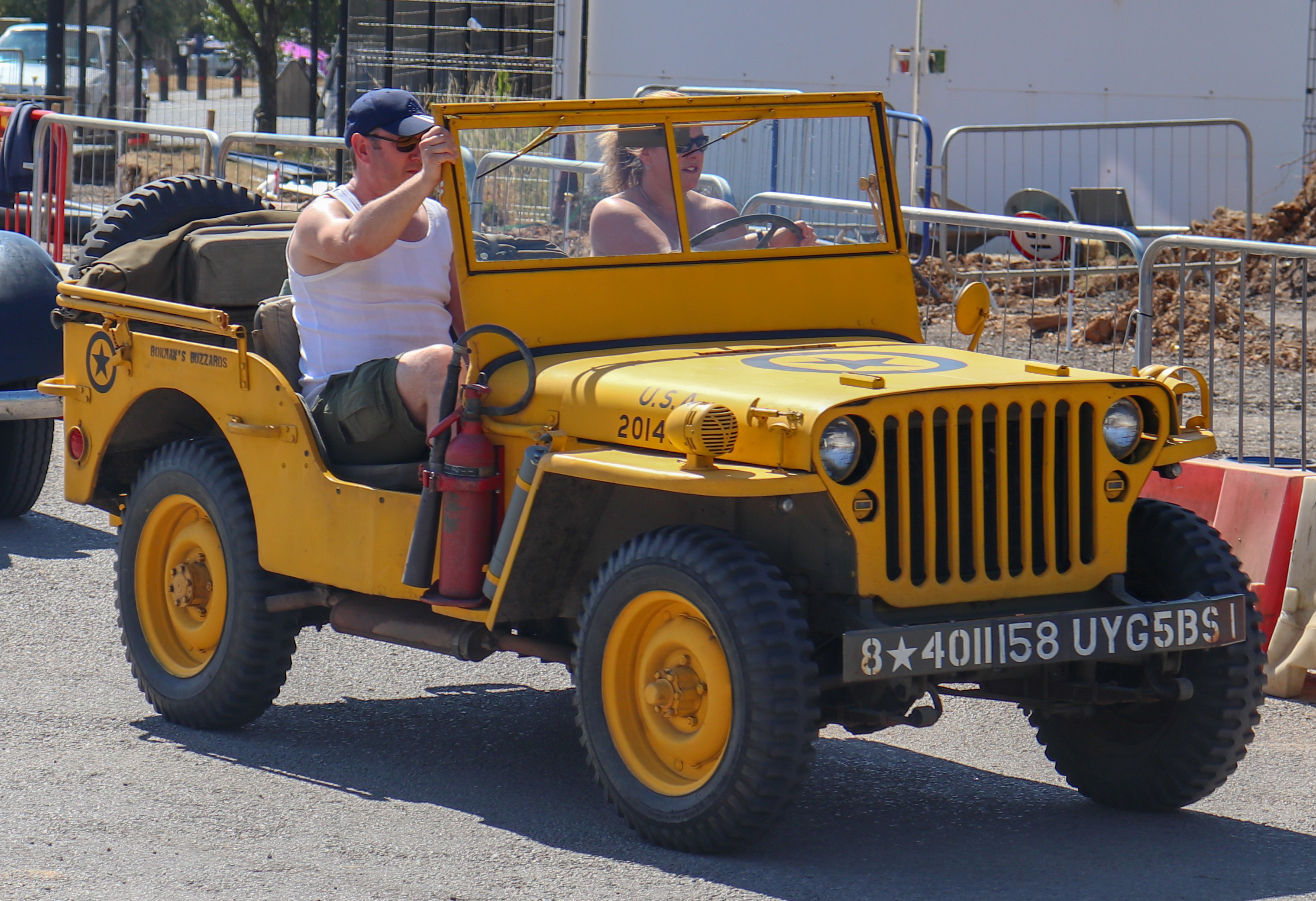 1941-45 Ford GPW Taken at the British Motor Museum Old Ford Rally 2018, Gaydon